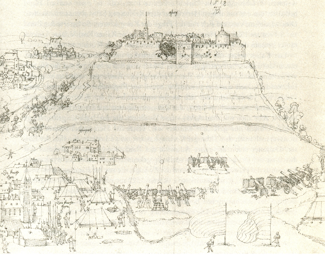 This drawing was made by Albrecht Dürer in 1512. It depicts Hohenasperg under siege by Georg von Frundsberg in the in war of Swabian League versus Duke Ulrich.